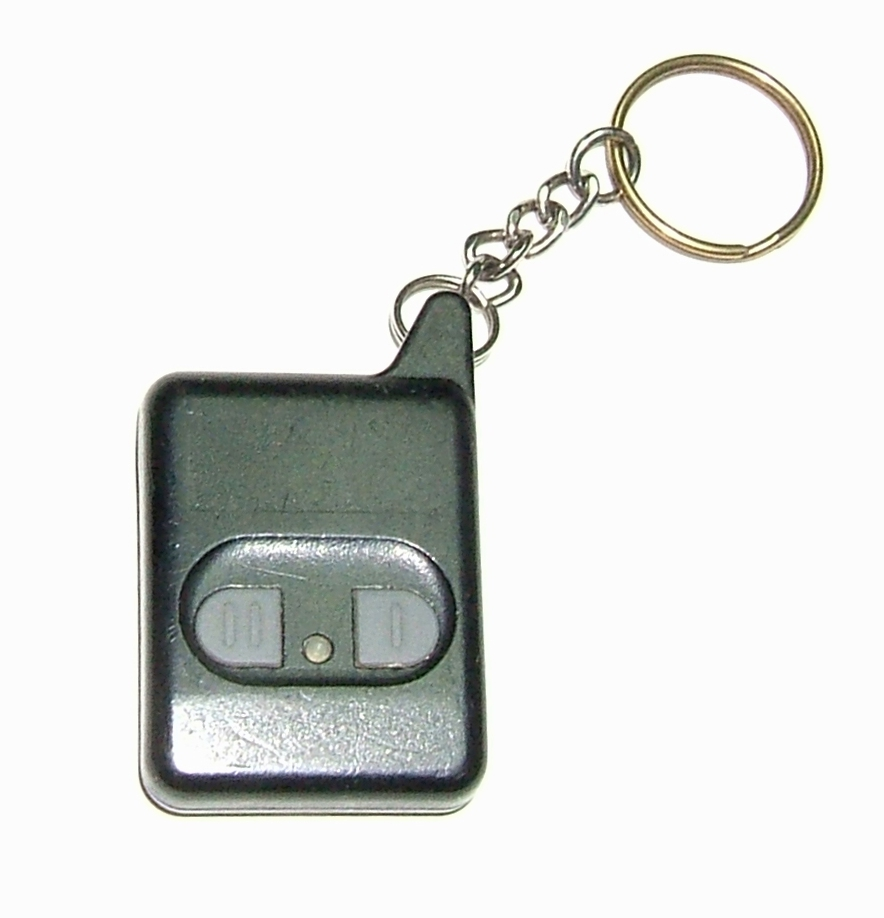 Keyless entry remote control fob for a Subaru Forrester. About 1.1 inch wide. Pressing the lefthand button unlocks the driver's door. Pressing the button again unlocks all the doors. Pressing the righthand button locks the doors. Between the two buttons is a green LED light that blinks when a button is pushed, to indicate that the transmitter is working.